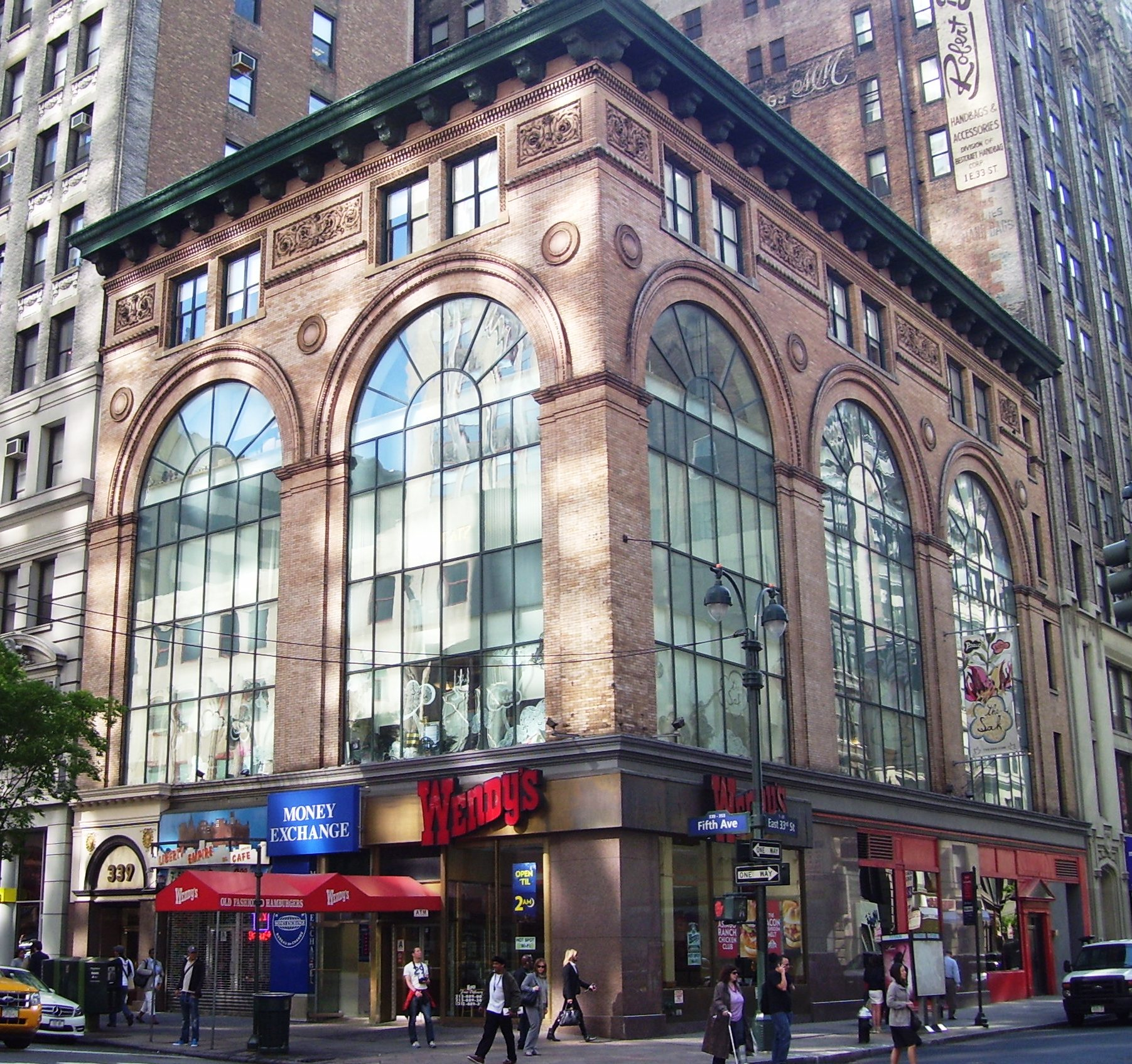 339 Fifth Avenue on the corner of East 33rd Street in Manhattan, New York City was built in 1916 and was designed by Trowbridge & Livingston. (Source: "Fifth Avenue" on New York Songlines)